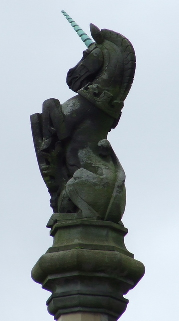 Mercat Cross unicorn. At Glasgow Cross 939882.